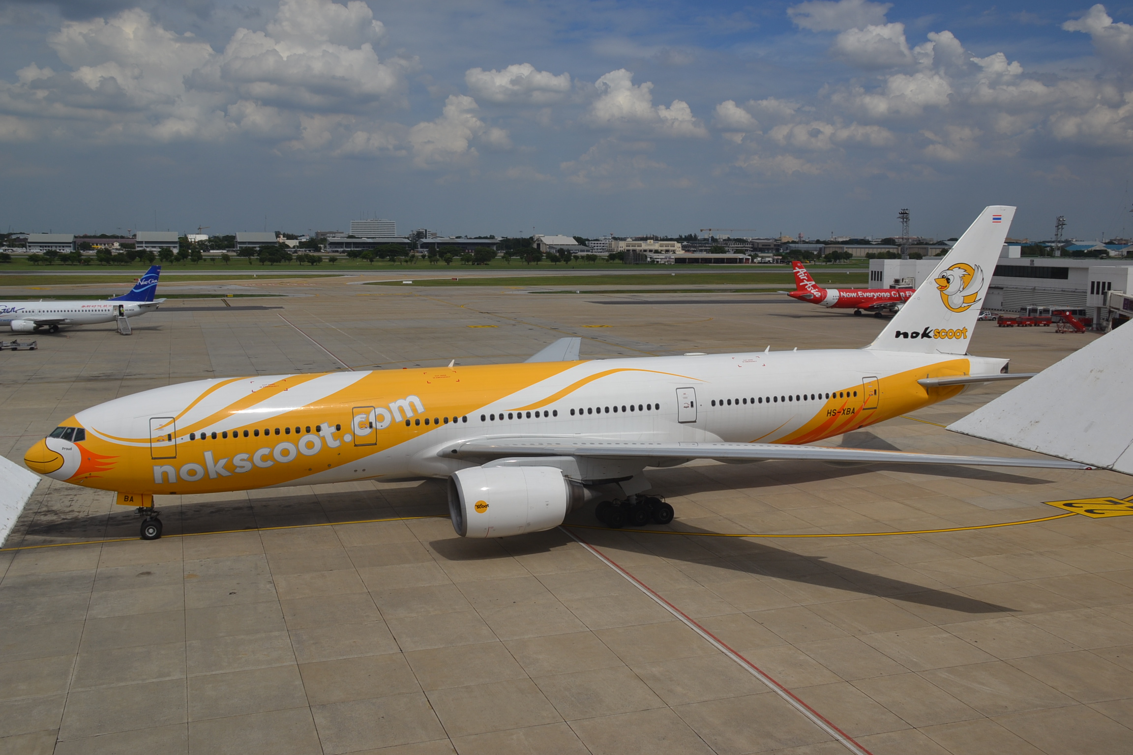 NokScoot Boeing 777-200ER (HS-XBA) at Don Muang International Airport